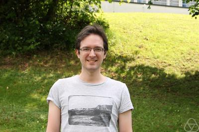 Picture of Grégory Miermont